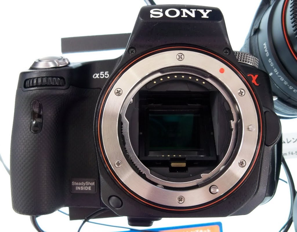 Sony Alpha 55 at store, Photo taken by Ricky W.